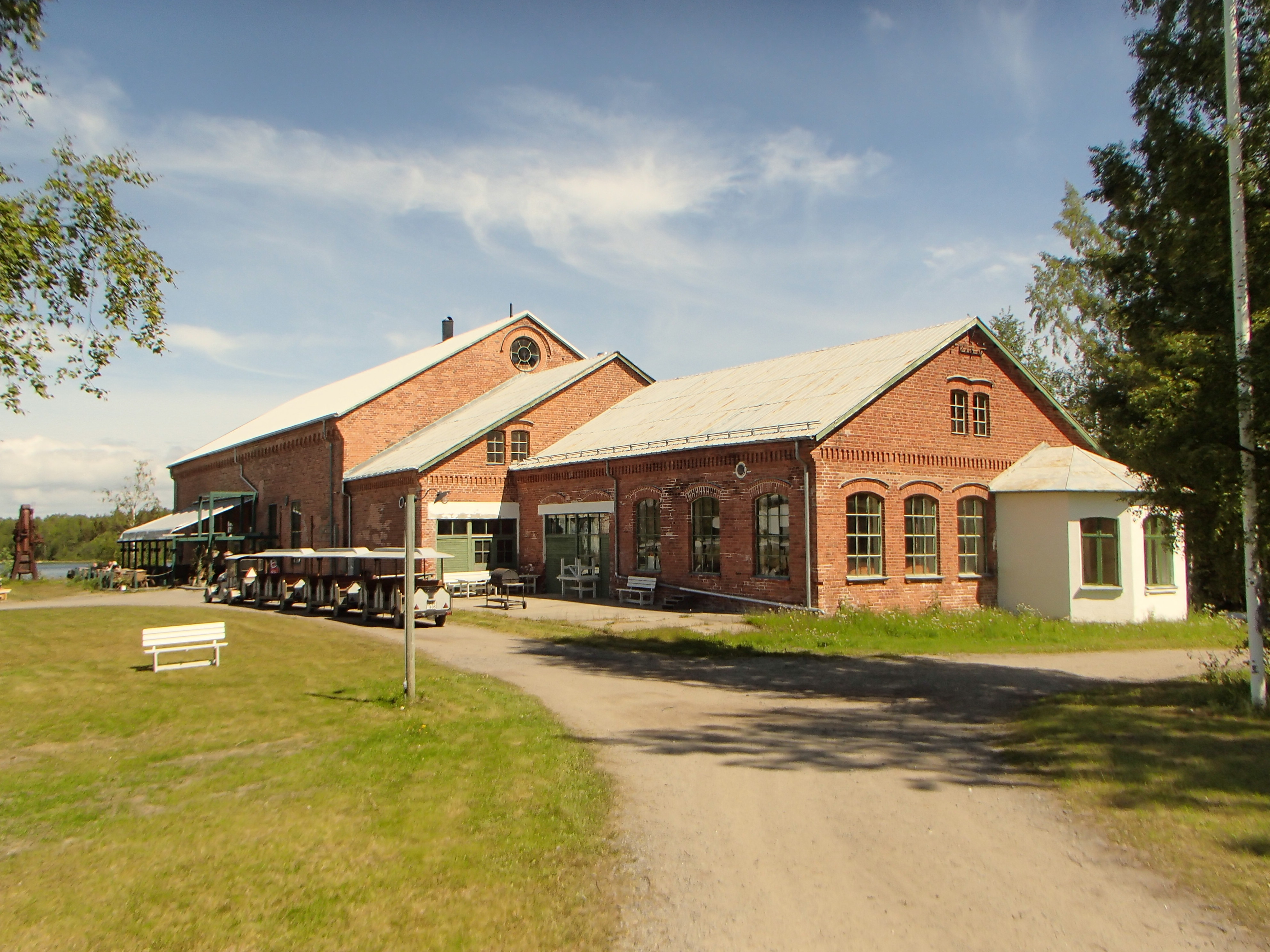 The main building at the working life museum of "Norrbyskärs Museum" at the Norrbyskär islands, Umeå Municipality